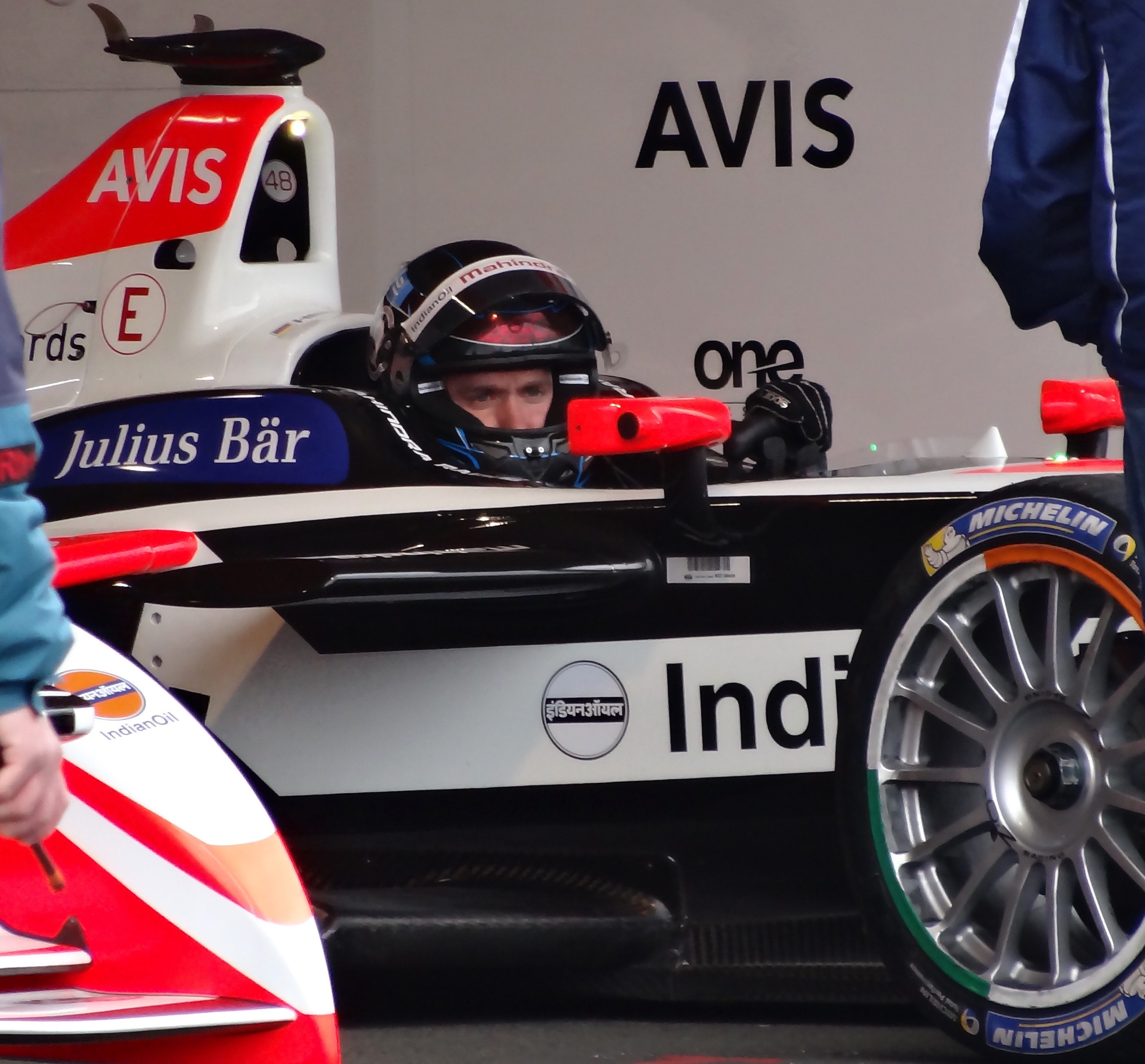 Nick Heidfeld Formula E